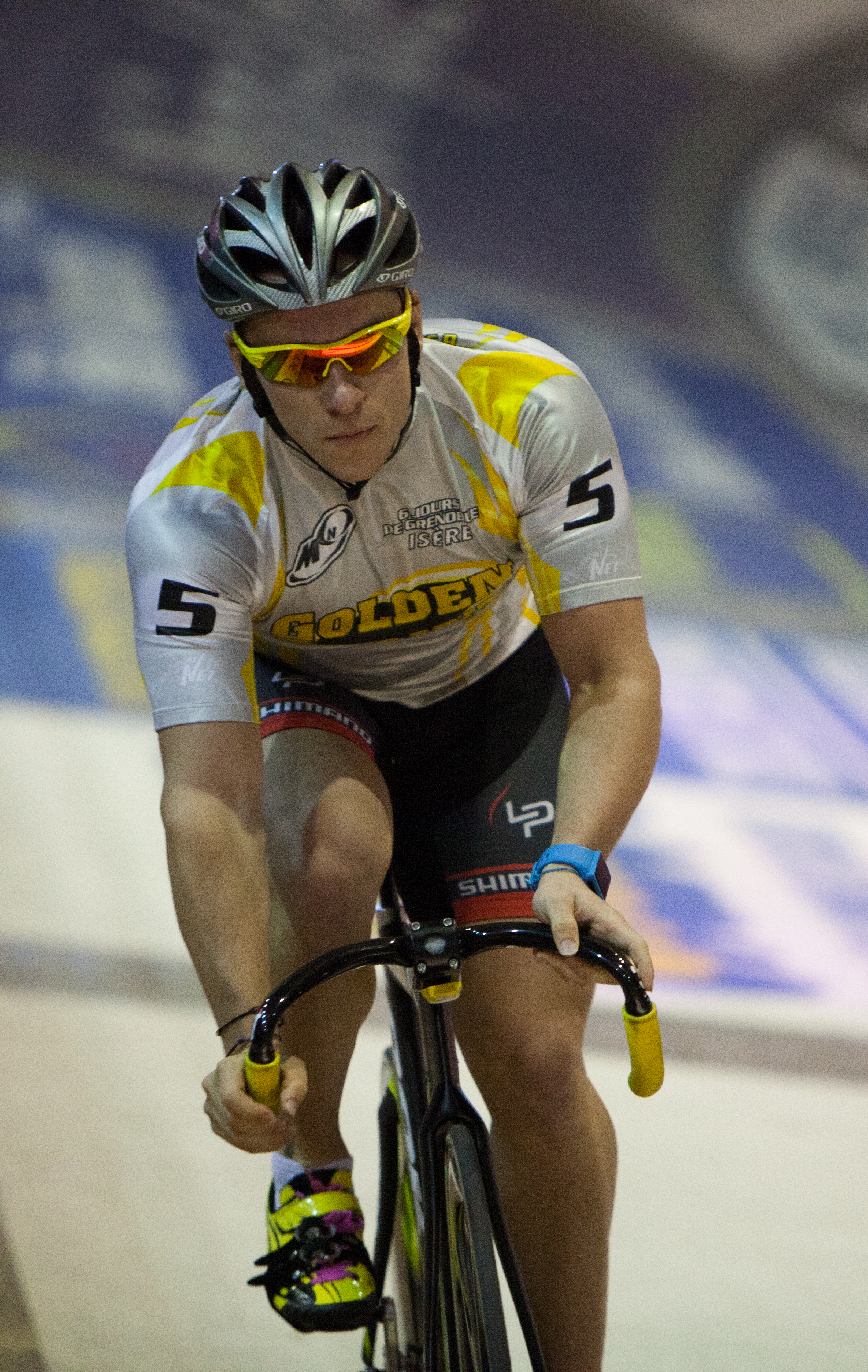 The making of this document was supported by Wikimedia CH. (Submit your project!) For all the files concerned, please see the category Supported by Wikimedia CH. Six jours de Grenoble 2011